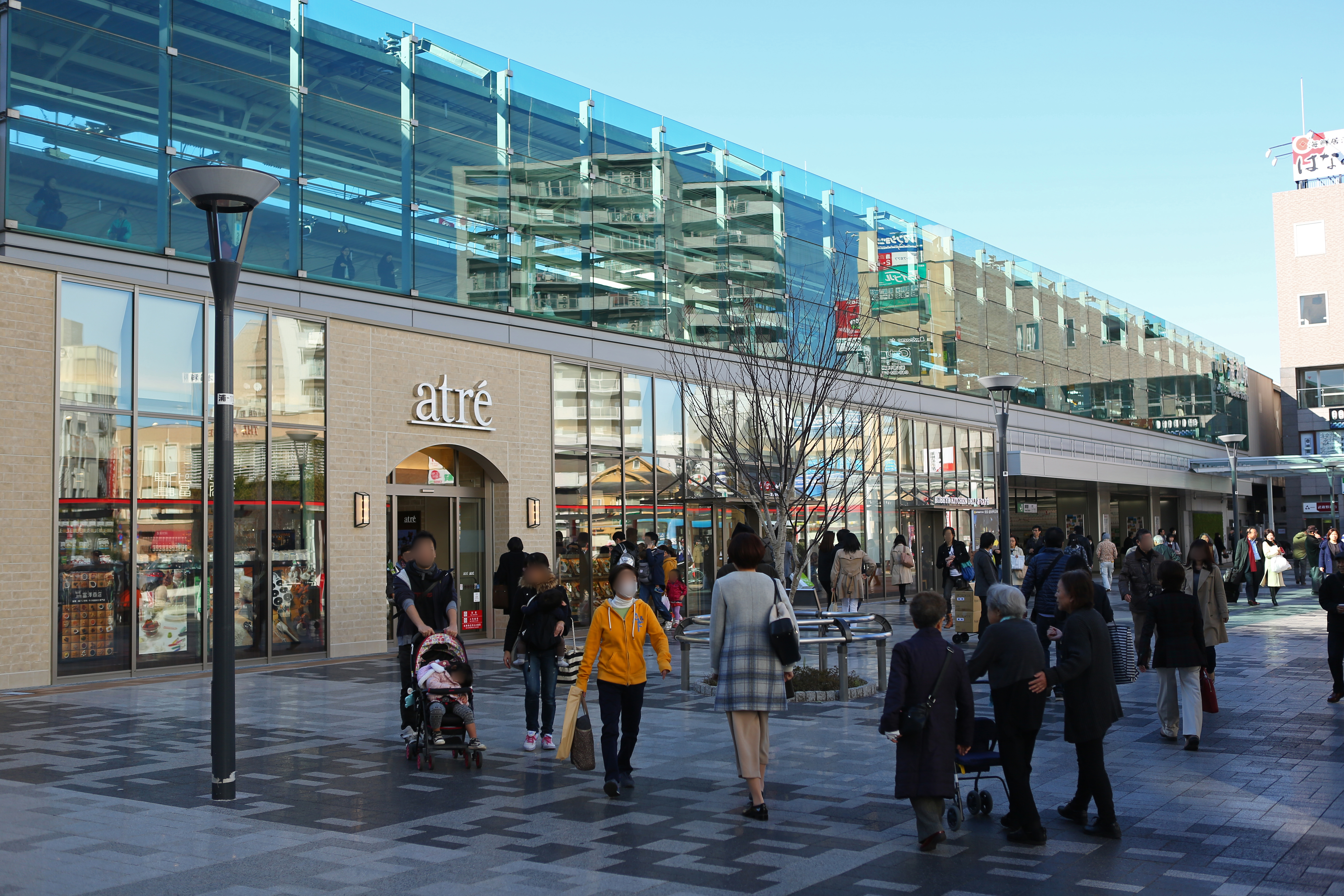 The east entrance of Urawa Station in Saitama Prefecture, Japan